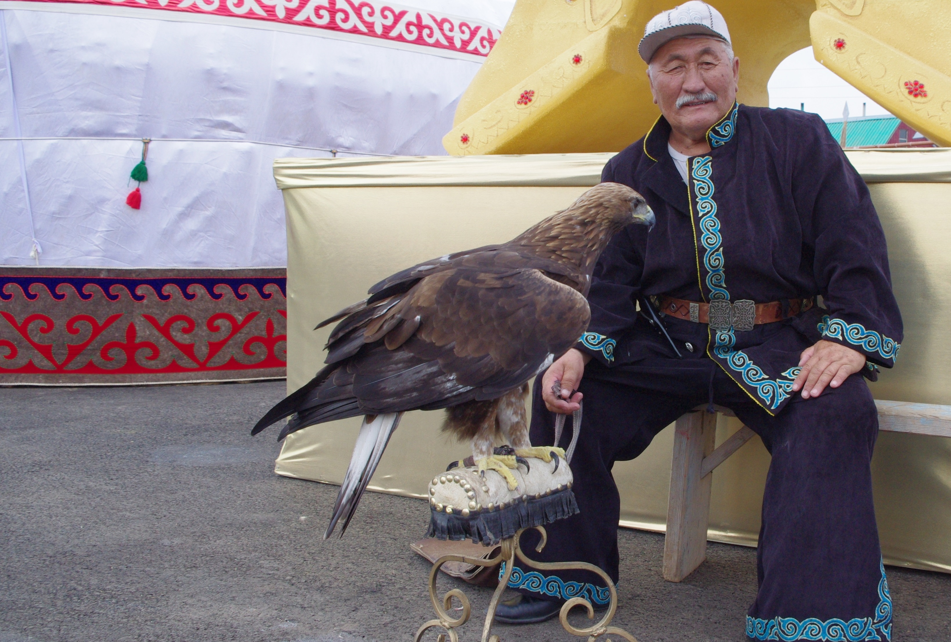 Kazakh man in traditional costume with Golden Eagle. Nur-Sultan.